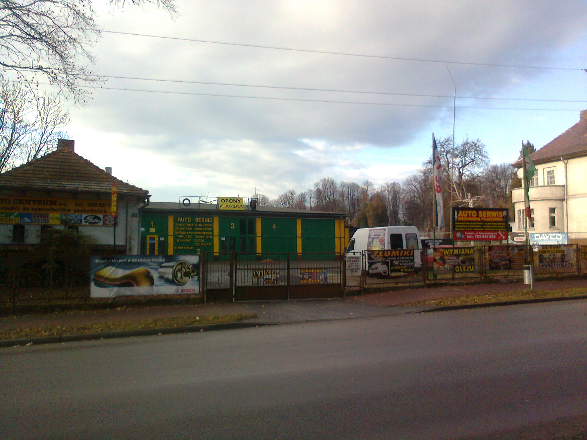 22 Jarosława Dąbrowskiego Street in Prudnik